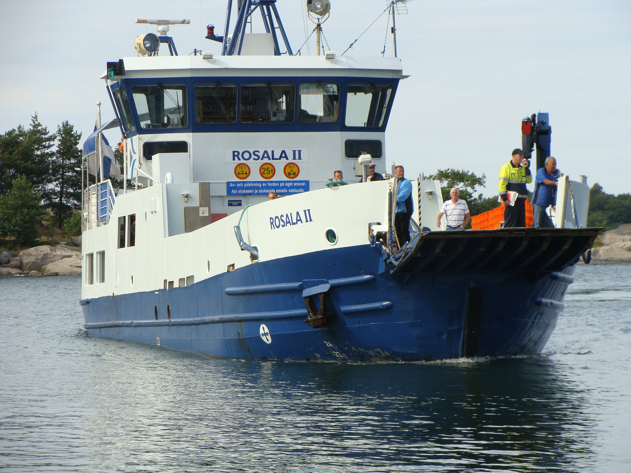 Archipelago ferry M/S Rosala II approaching Tunnhamn island in Archipelago Sea in Finland.